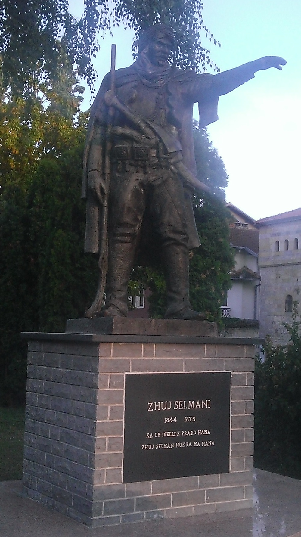 Zhuj Selmani statute in Pejë, Kosovo